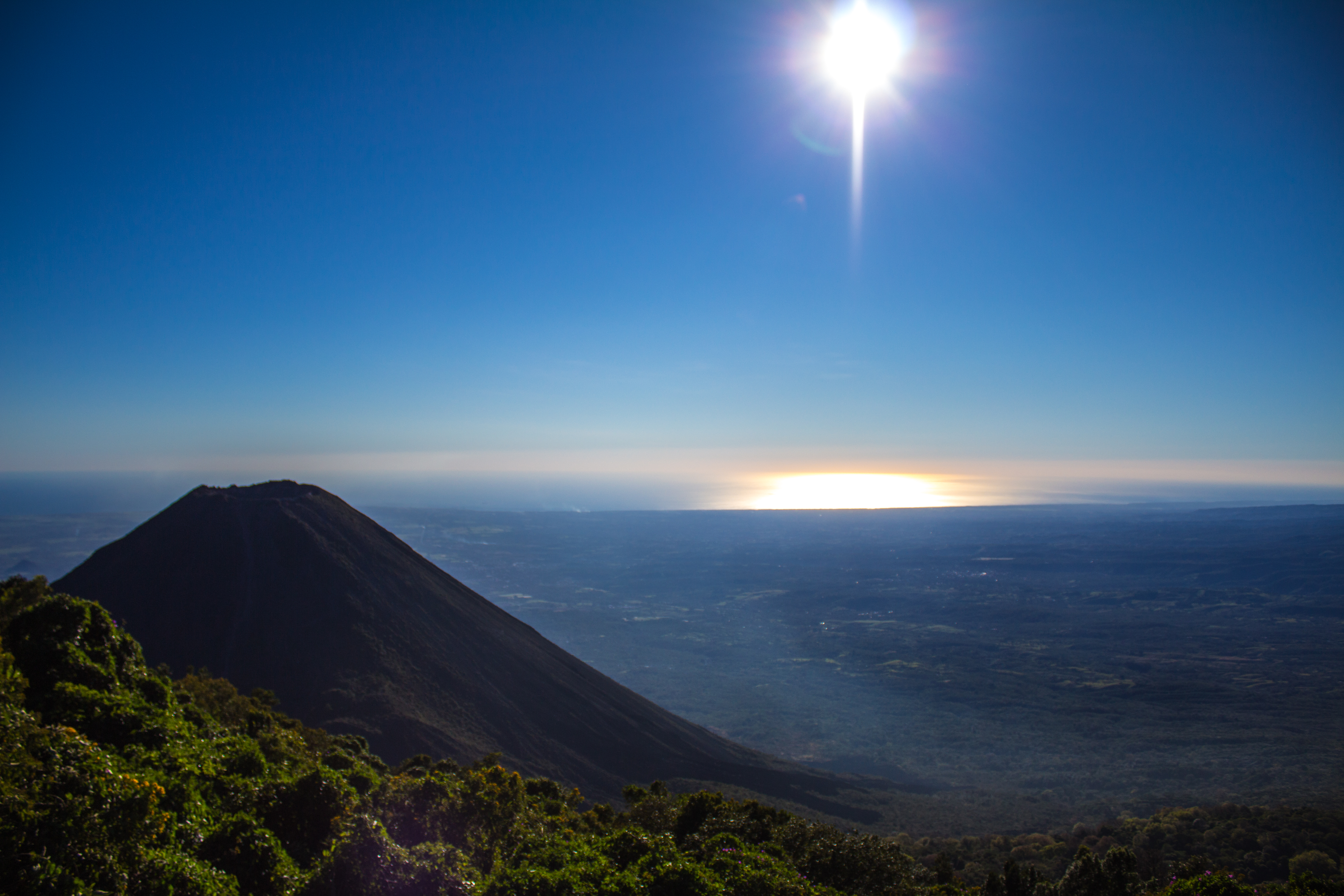 Volcán de Izalco, atardecer.